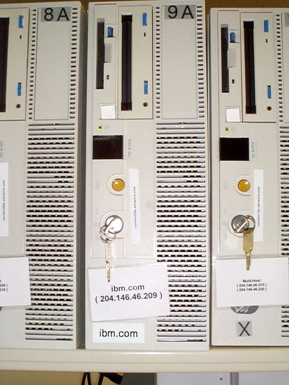 Some IBM RS/6000 AIX servers which were powering in January 1998 (detail).